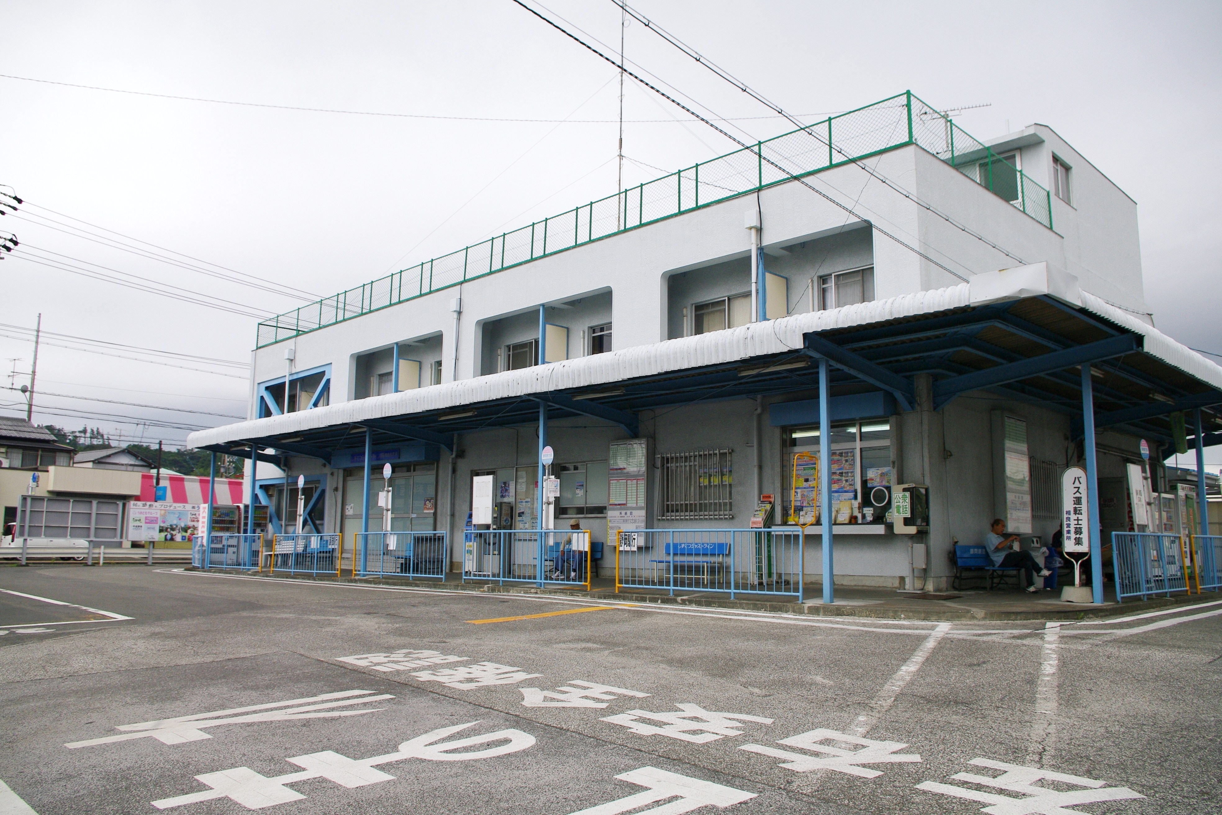 Shizutetsu Jusutline Sagara Depot